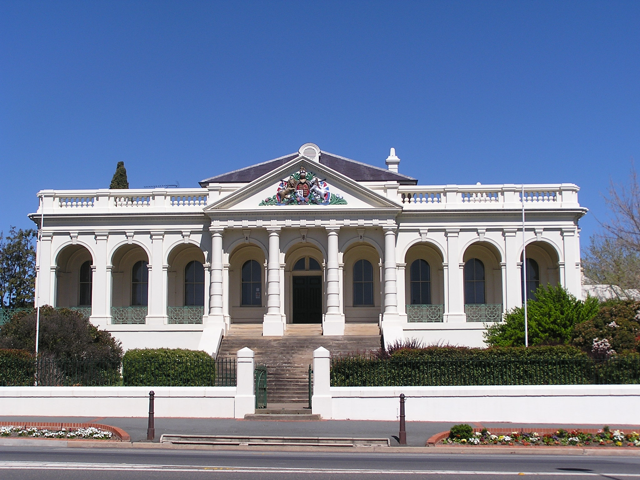 Court House at Yass, New South Wales, Australia.